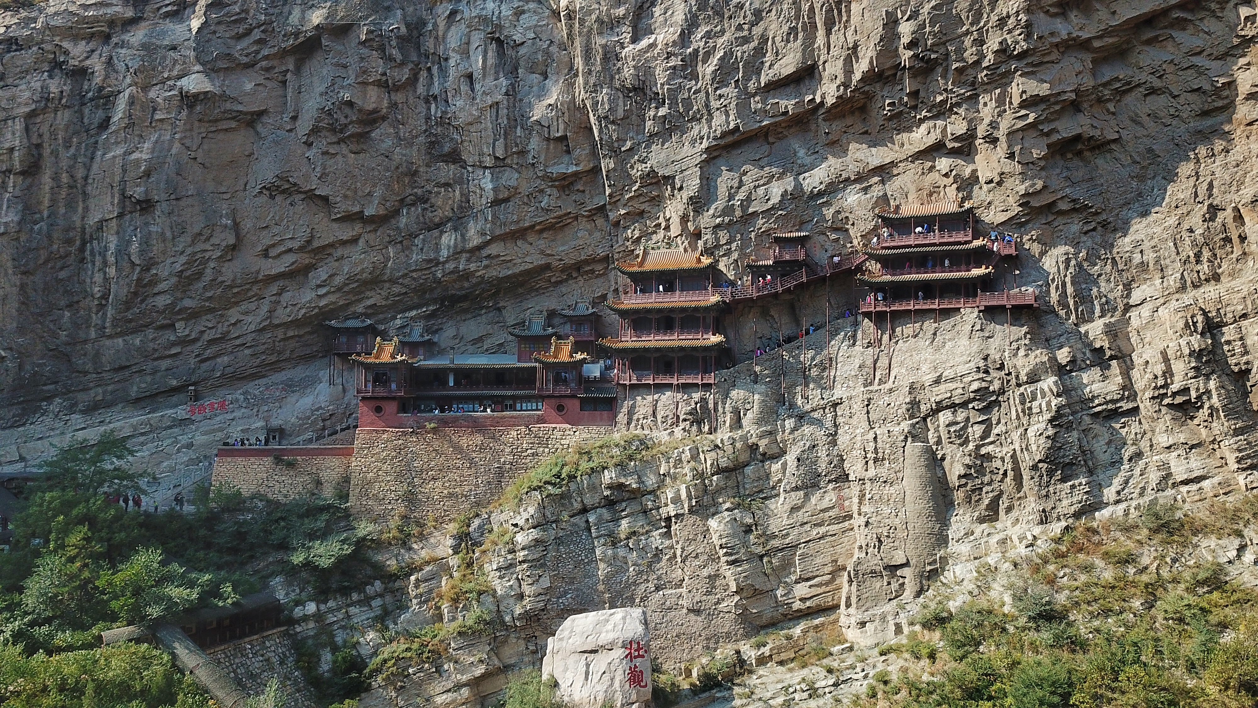 The Hanging Temple, also Hanging Monastery or Xuankong Temple is a temple built into a cliff (75-metre (246 ft) above the ground) near Mount Heng in Hunyuan County, Datong City, Shanxi Province, China.